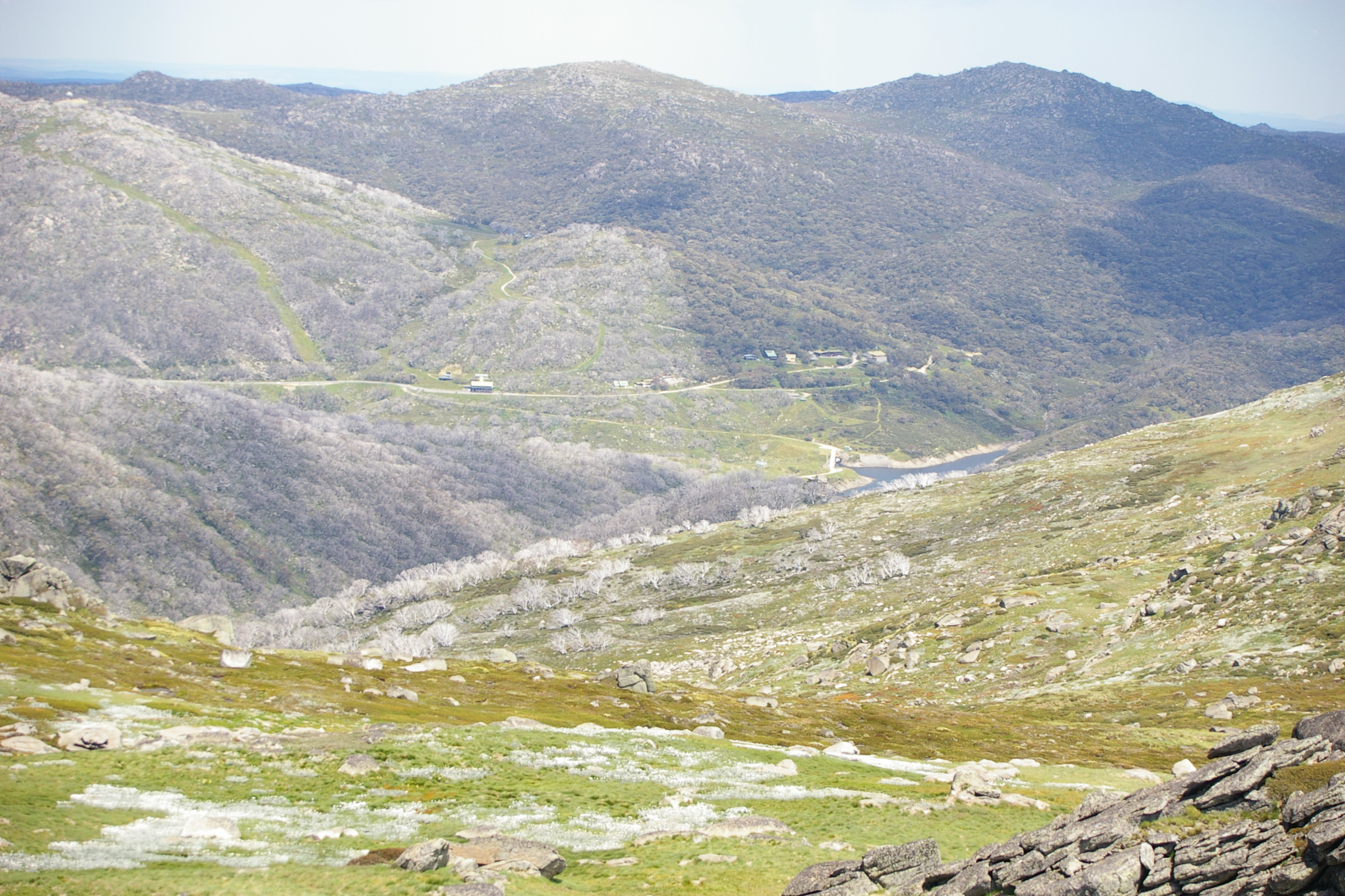 The view from Mount Tate towards Guthega, New South Wale